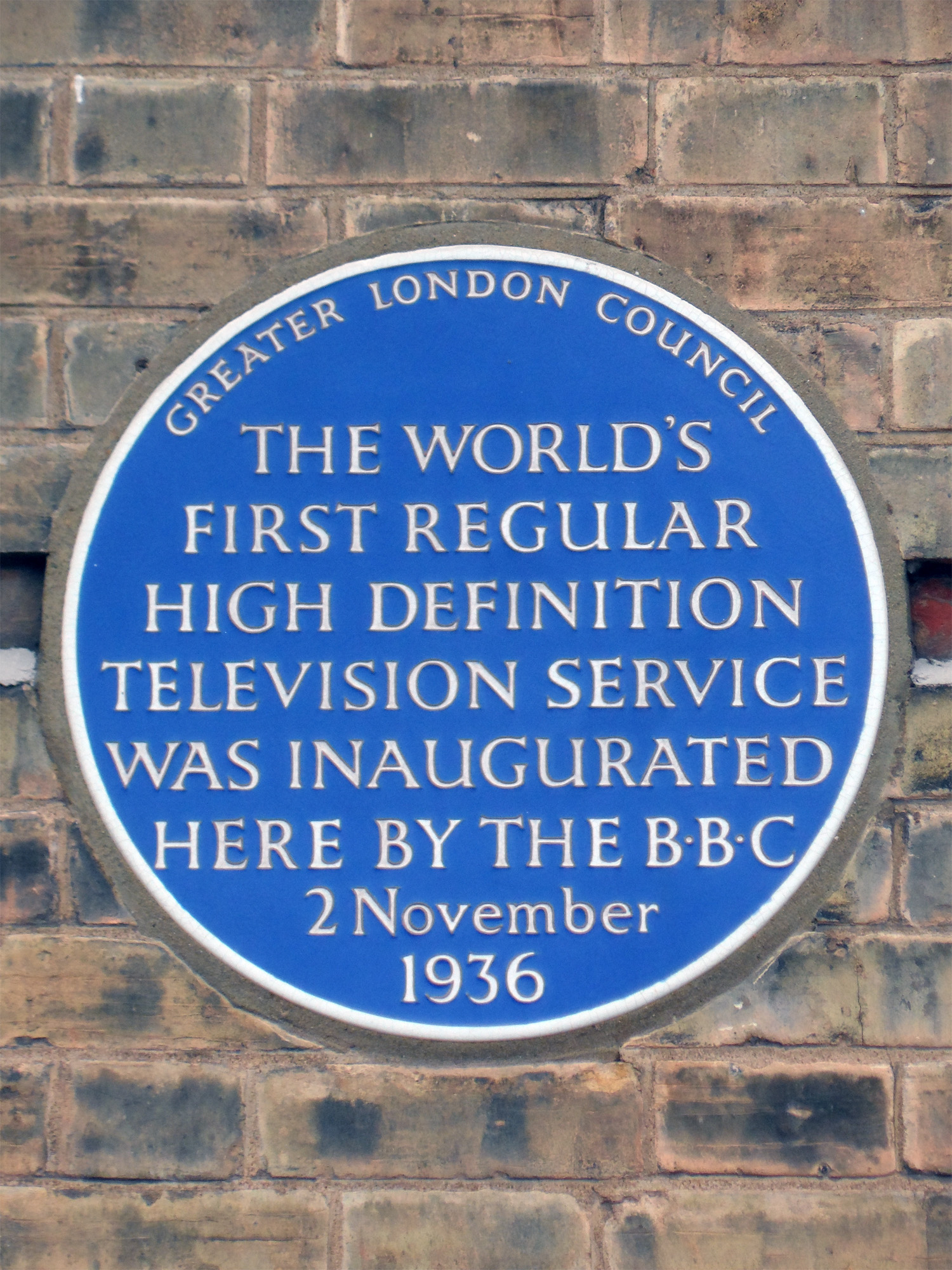 Blue plaque erected in 1977 by Greater London Council at Alexandra Palace, Wood Green, London N22 7AY, London Borough of Haringey